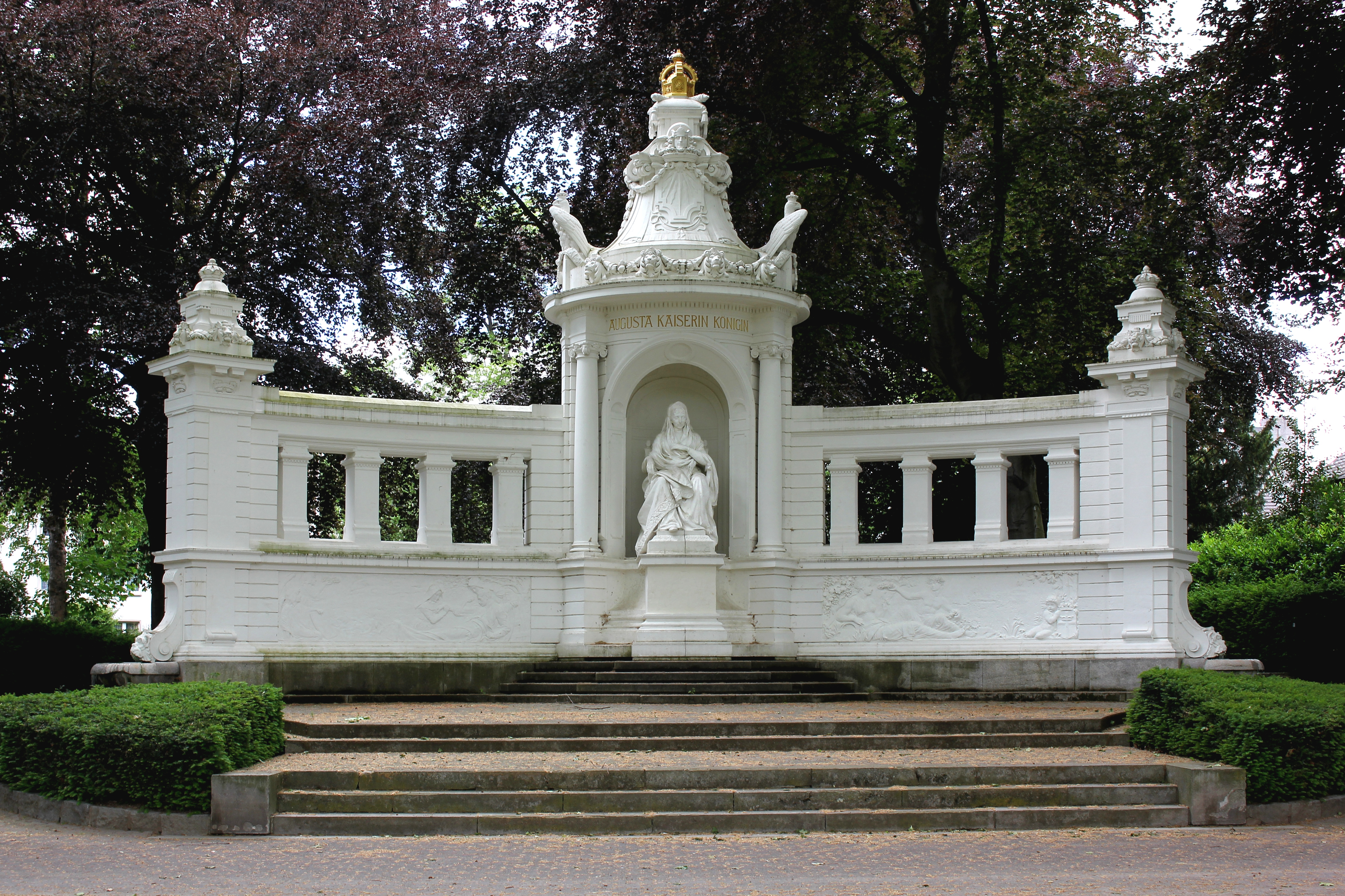 Monument for Empress Augusta in the Rhine facilities of Koblenz. The monument with the sculpture created by Karl Friedrich Moest was inaugurated on October 18, 1896, six years after Augusta's death. The monument was planned by Bruno Schmitz.